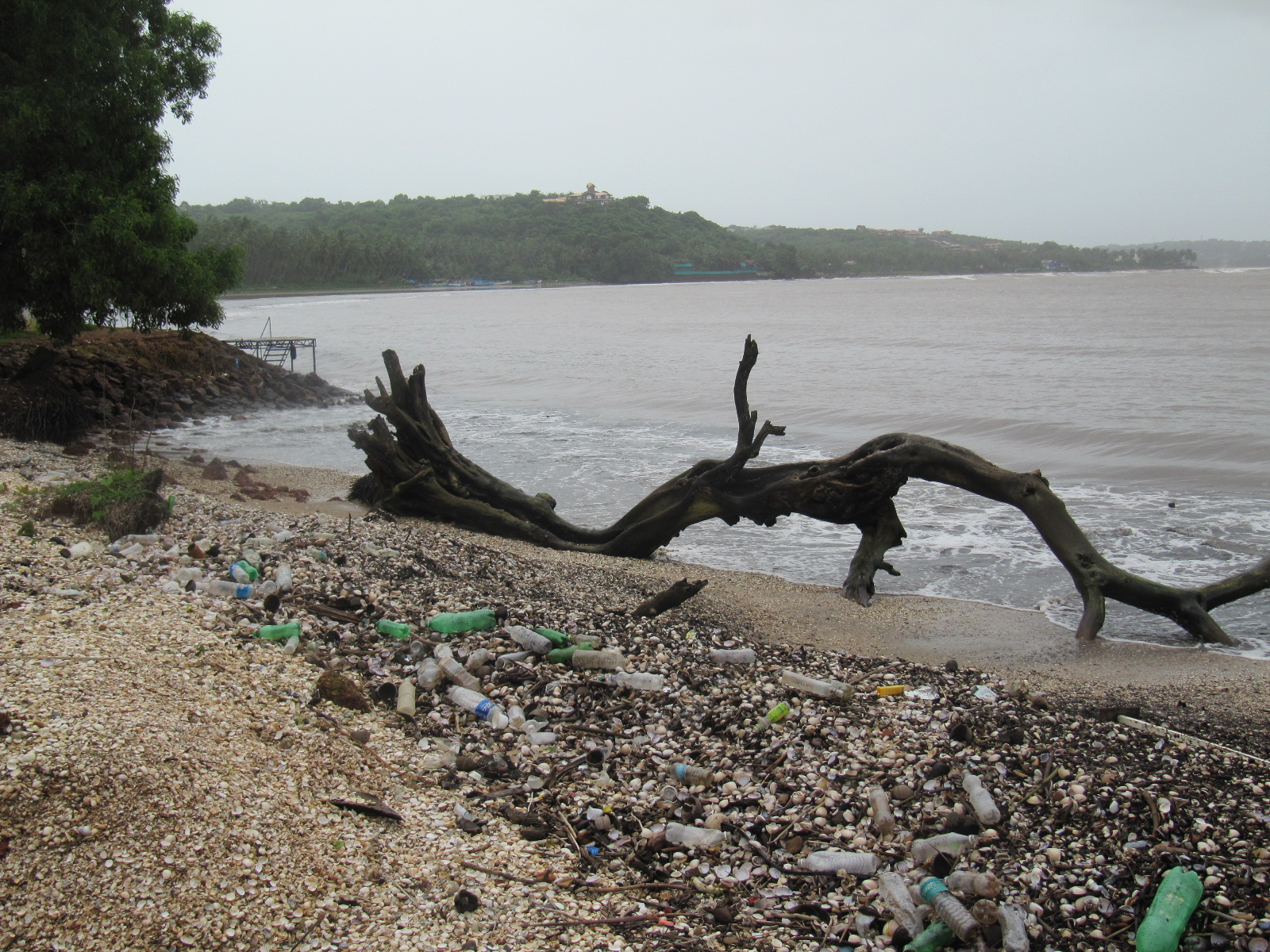 Plastic Waste at Coco Beach, outfall of Mandovi river into Indian ocean. (India, Goa)